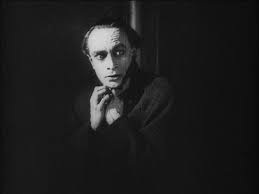 Screenshot from German movie "Orlac’s Hände", 1924 year